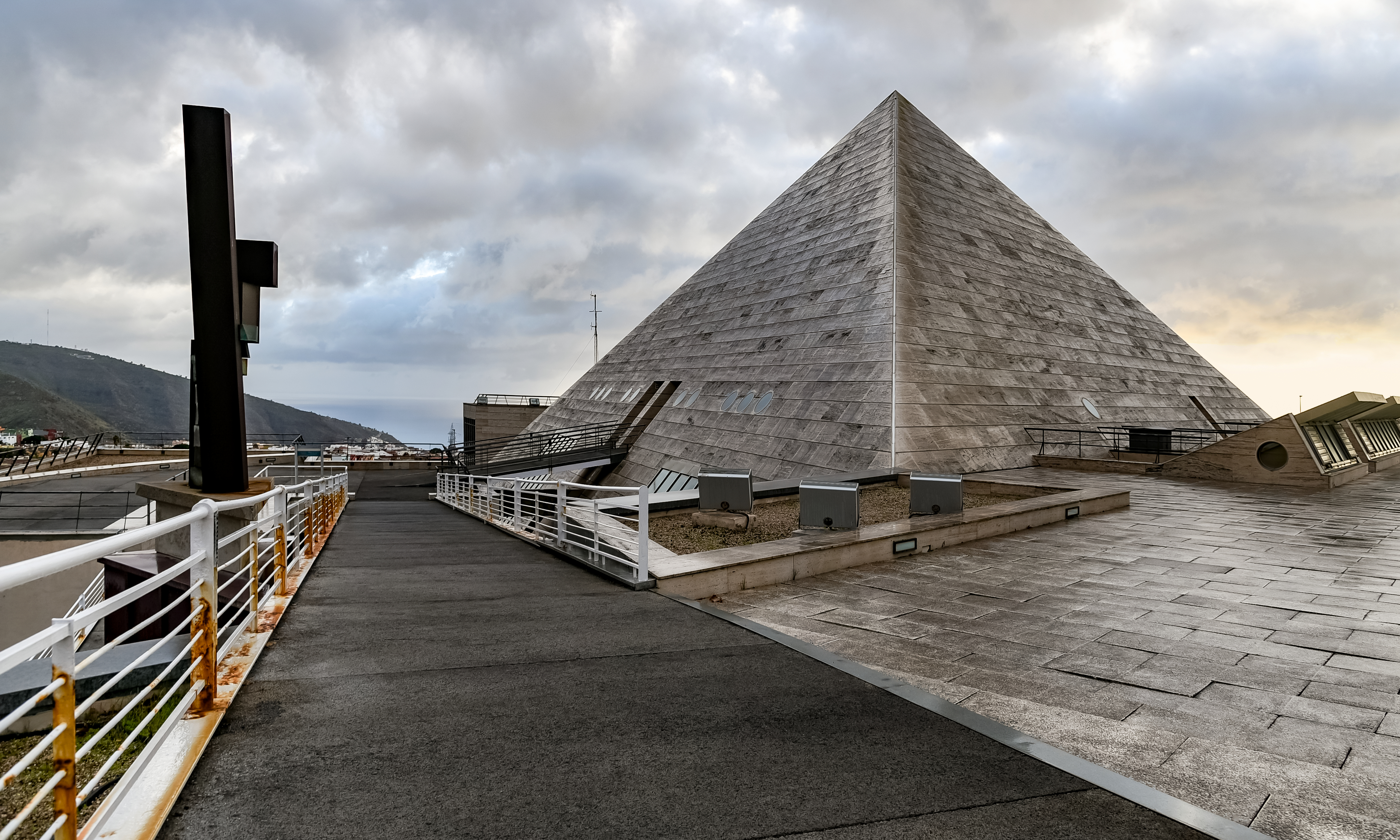 Facultad de Ciencias Políticas, Sociales y de la Comunicación. Universidad de La Laguna. San Cristóbal de la Laguna (Tenerife, Islas Canarias, España)